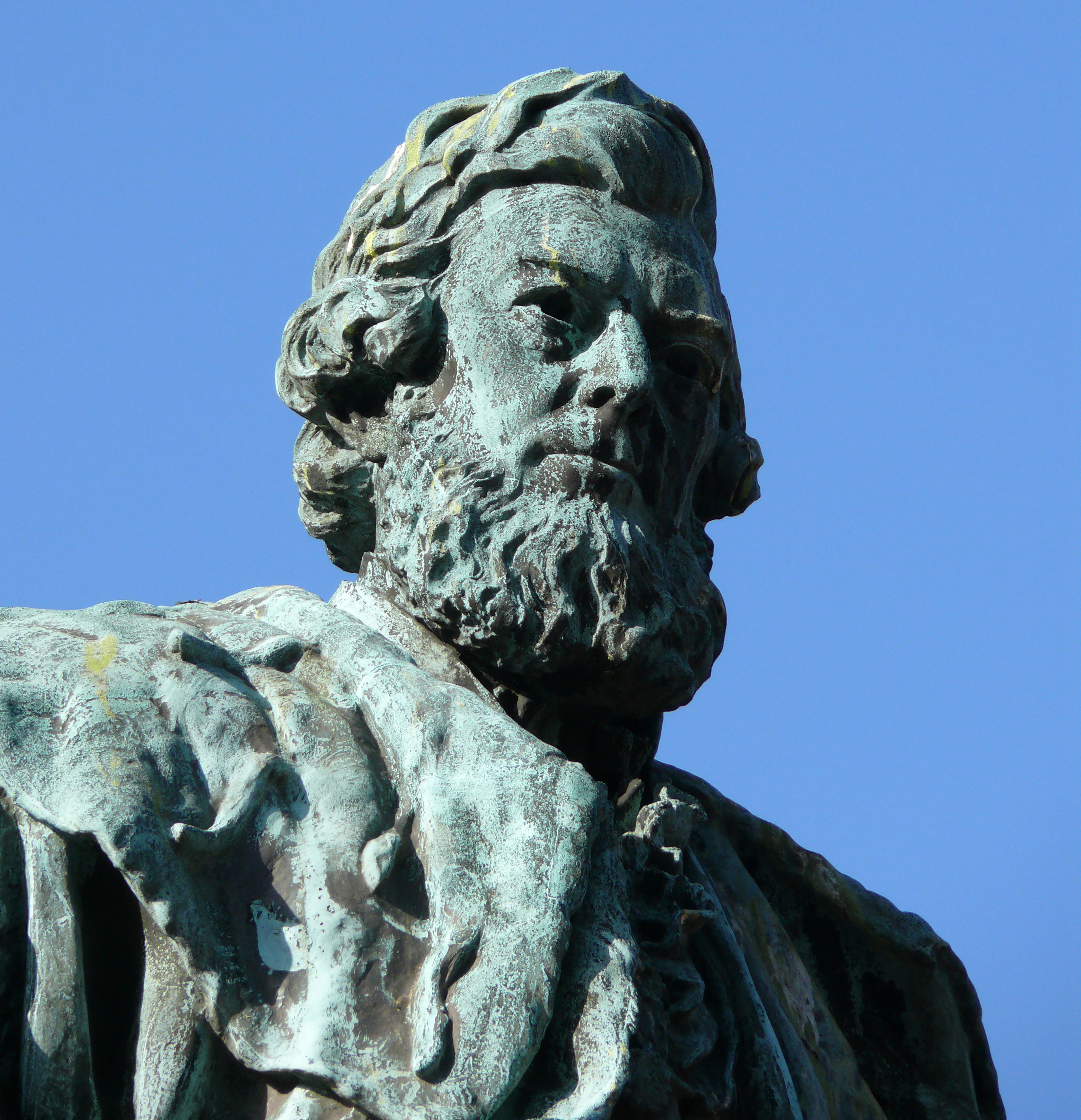 Statue erected in memory of William Chambers of Glenormiston (1800-1883), Lord Provost of Edinburgh (1865-1869). It faces the Royal Museum in Chambers Street, Edinburgh. Standbeeld ter ere van William Chambers of Glenormiston (1800-1883), Lord Provost (burgemeester) van Edinburgh (1865-1869). Het staat tegenover de (voormalige) ingang van het Royal Museum in de naar hem genoemde straat.